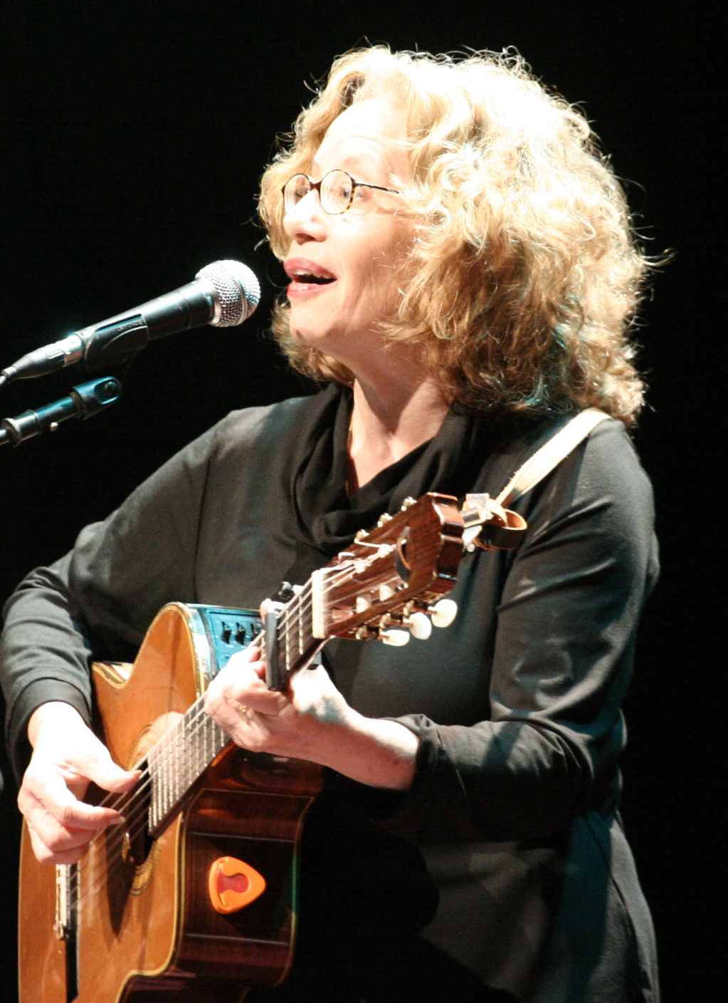 Chava Alberstein, an Israeli singer, giving a concert